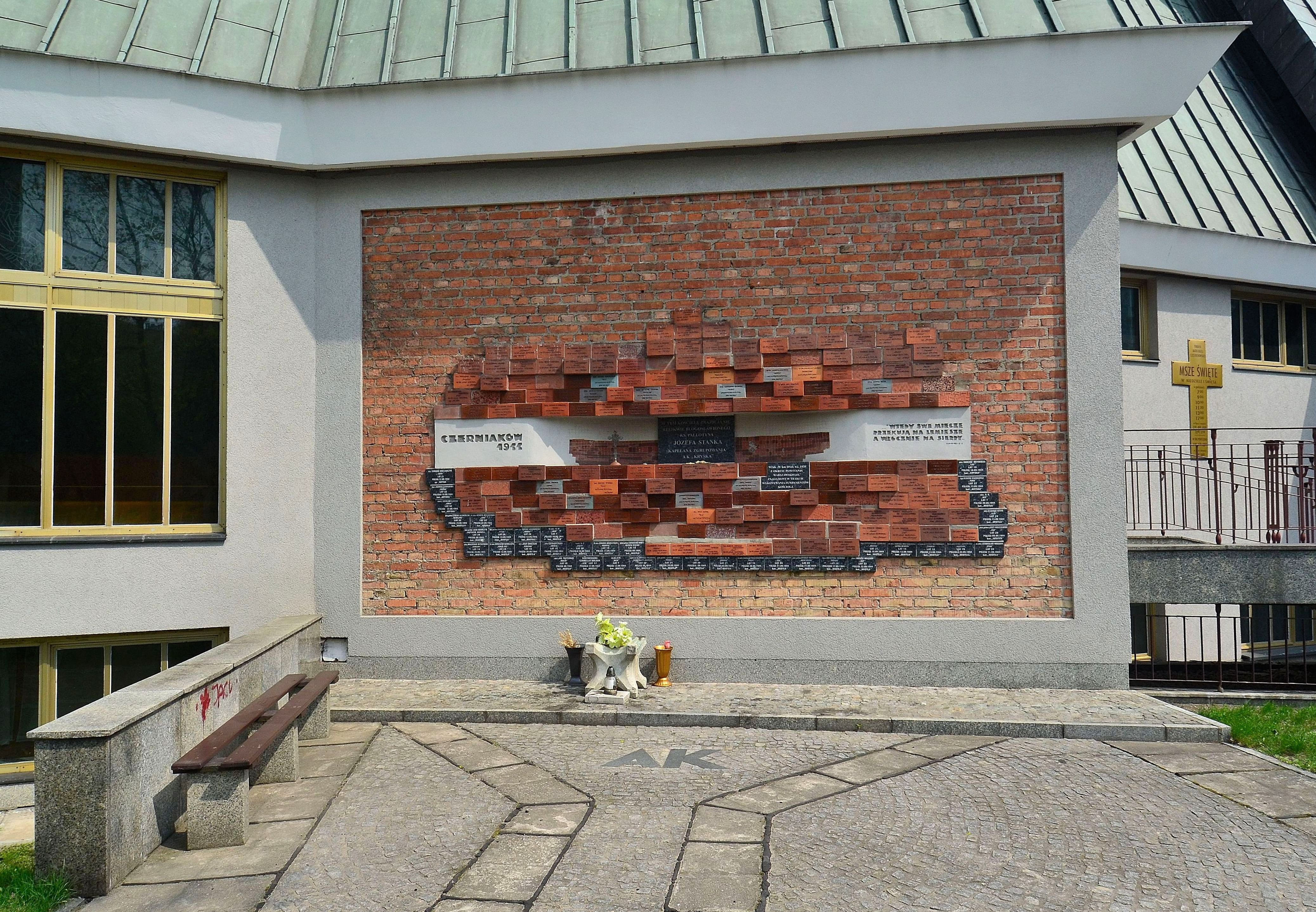 Plaques in memory of Warsaw Uprising fighters on the side wall of the Church of Saint Mary of Częstochowa in Warsaw